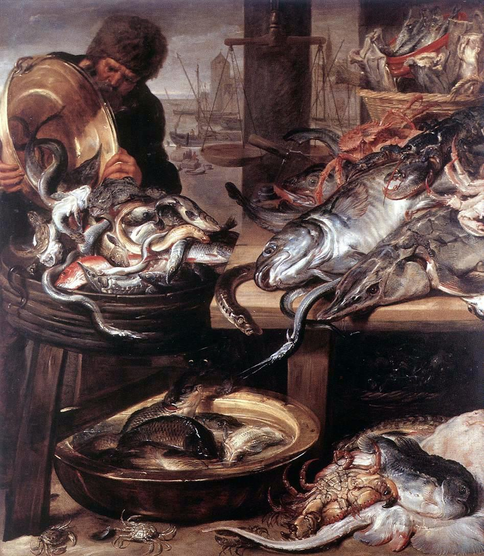 The Fishmonger